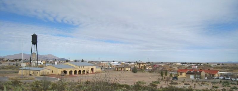 Village of Columbus, New Mexico as seen from Pancho Villa State Park